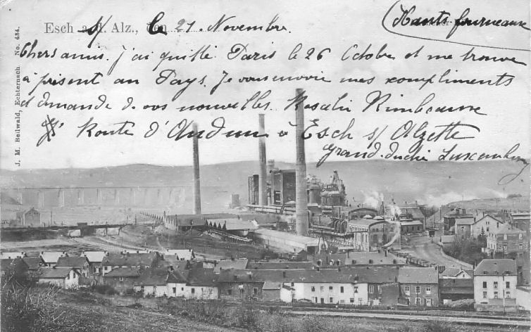 Esch-sur-Alzette: Aachener Hutte, Photo by J.M. Bellwald, N° 434. Steel works 'Aachener Hütte', Rothe Erde (later: Terre Rouge)